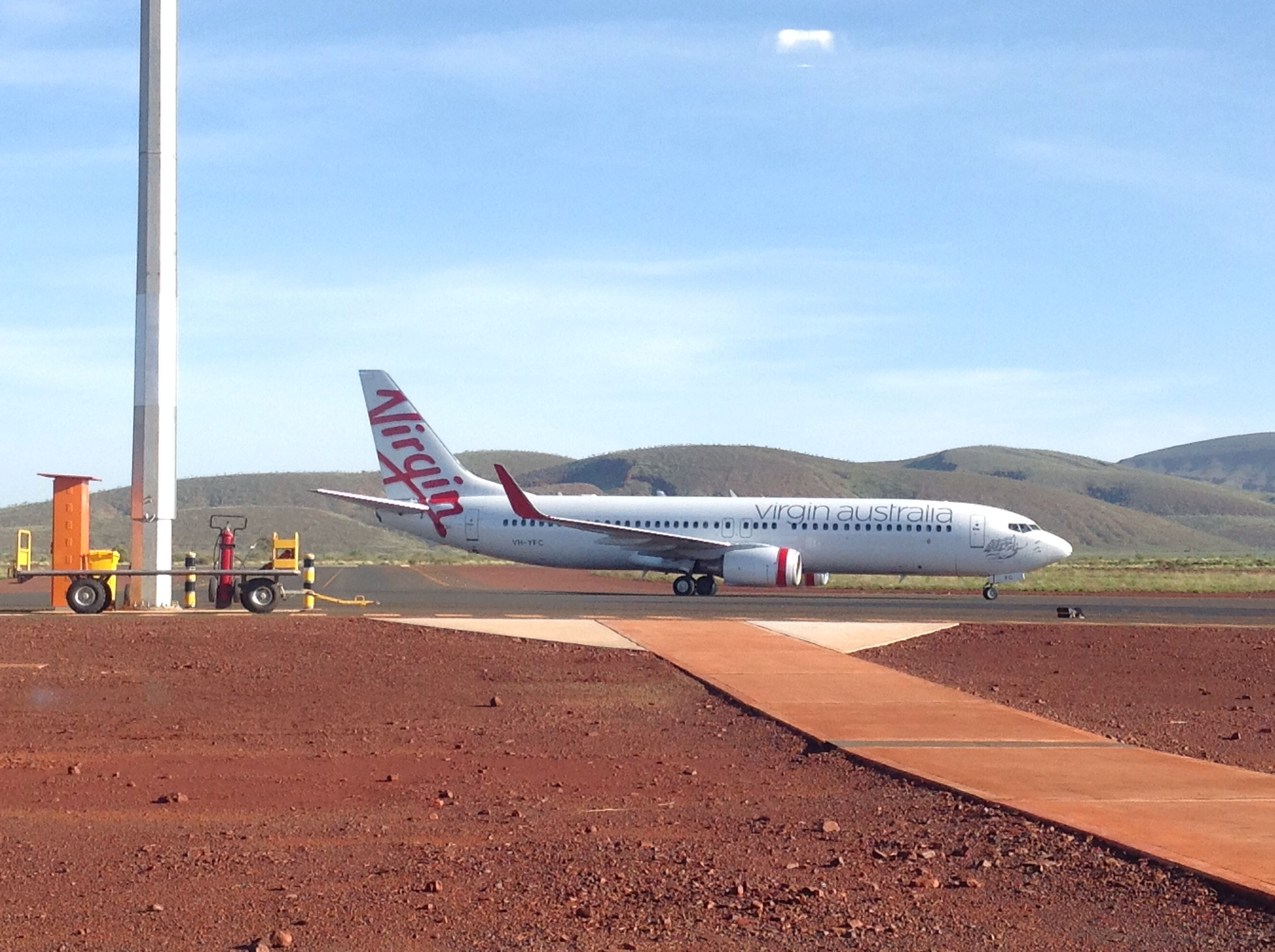 A Virgin Australia charter flight arriving at Boolgeeda Airport.